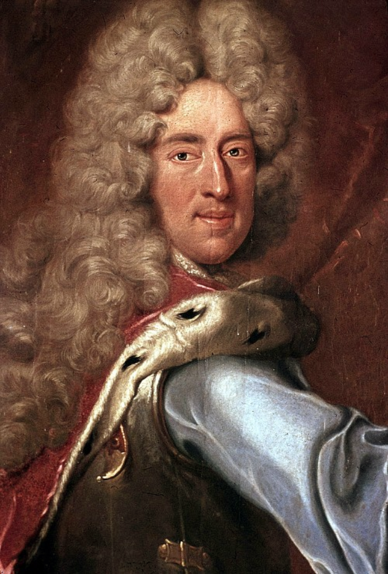 Portrait of John William III, Duke of Saxe-Eisenach (1666-1729)